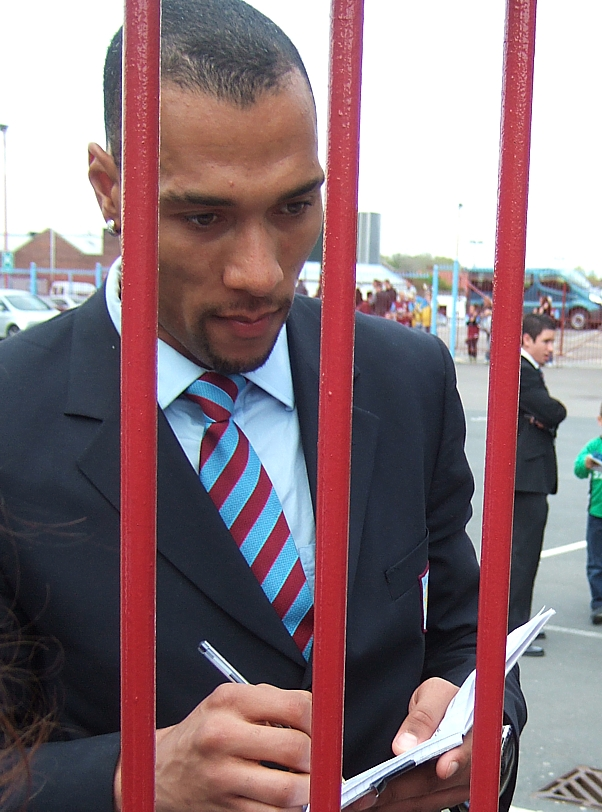 John Carew